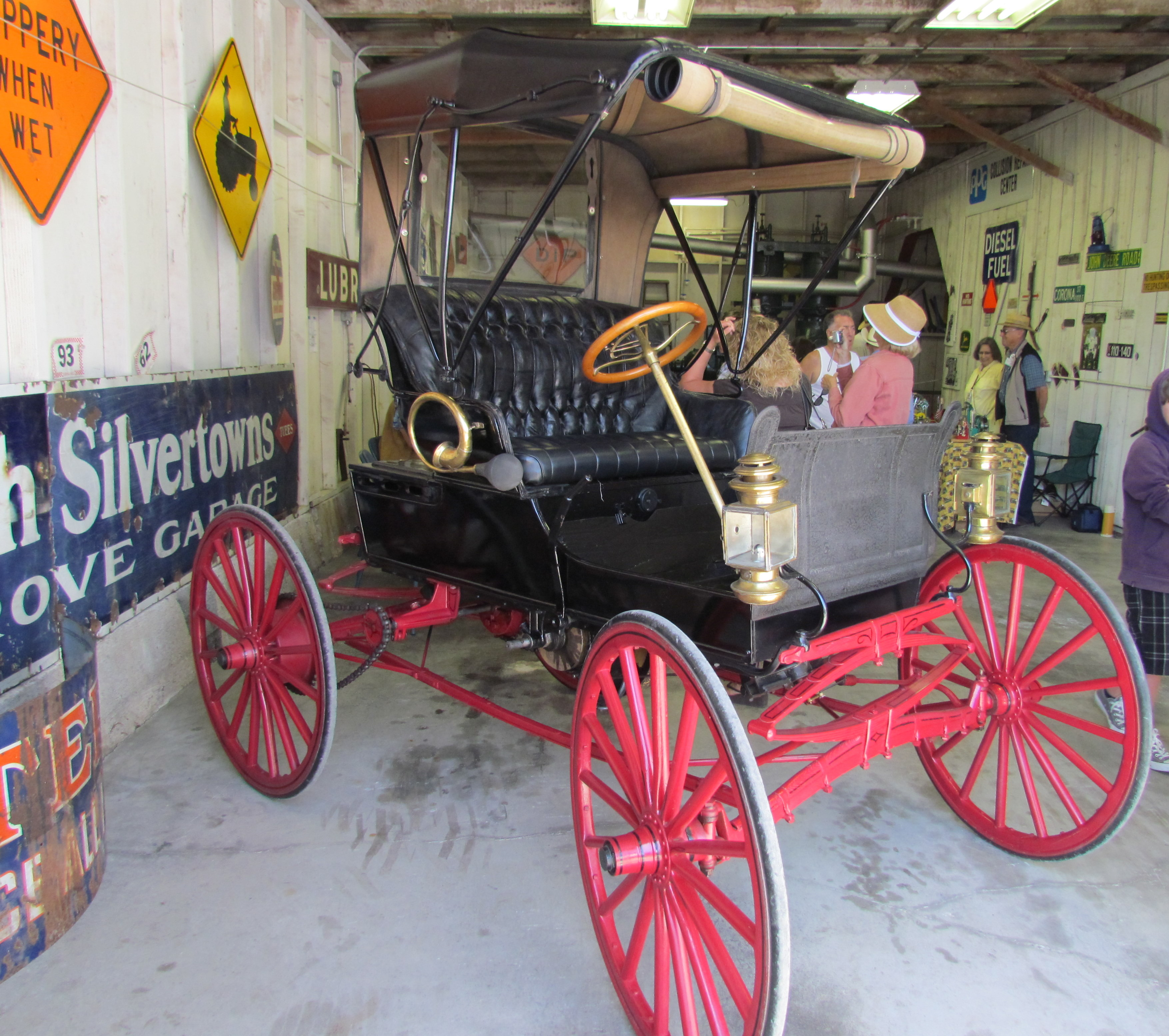 1903 Winner Motor Buggy Model R Pengrove Power and Implement Museum, Penngrove, CA, July 9, 2011